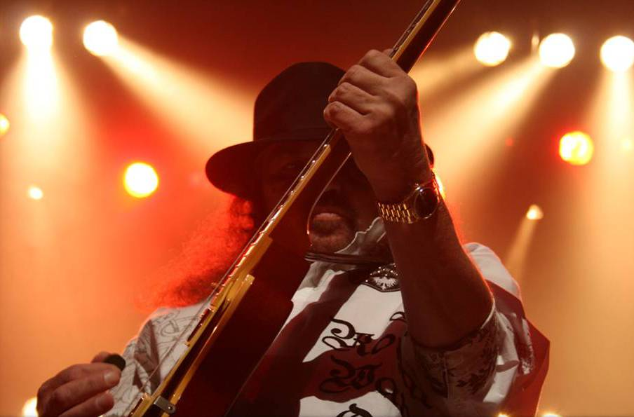 Lynyrd Skynyrd at Oslo Spektrum 2009, Norway